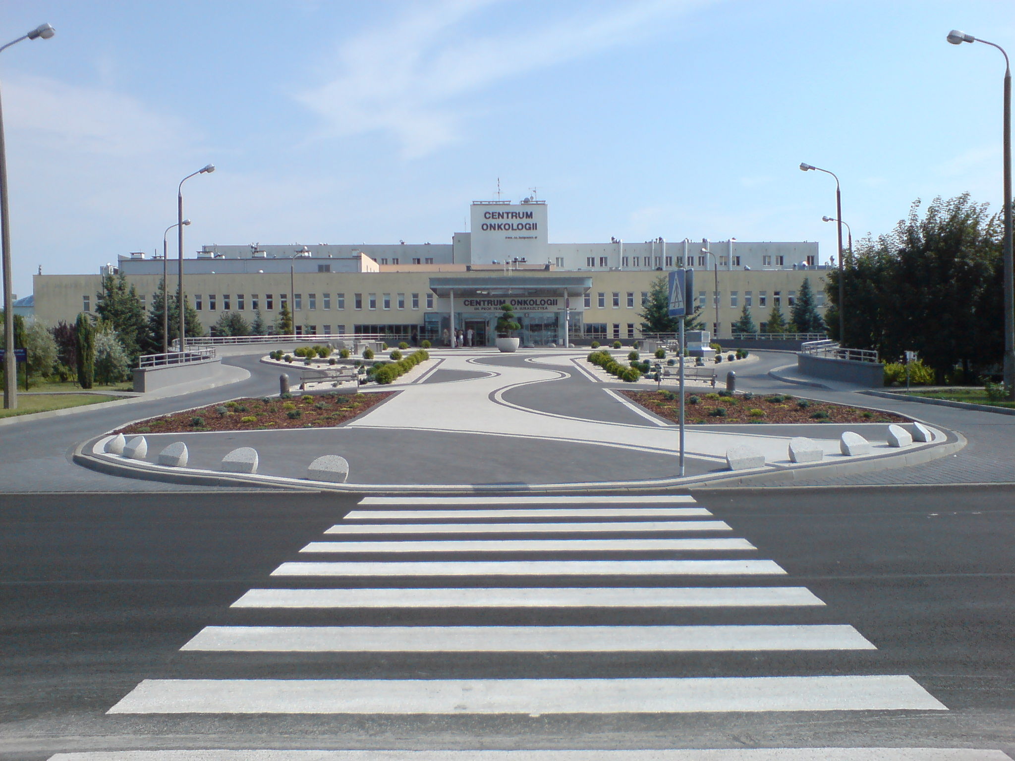 Centrum Onkologii im. prof. F. Łukaszczyka w Bydgoszczy (2) 28 lipiec 2013 r.